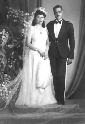 Gamal Abdel Nasser and his wife Tahia al-Kazem in wedding picture